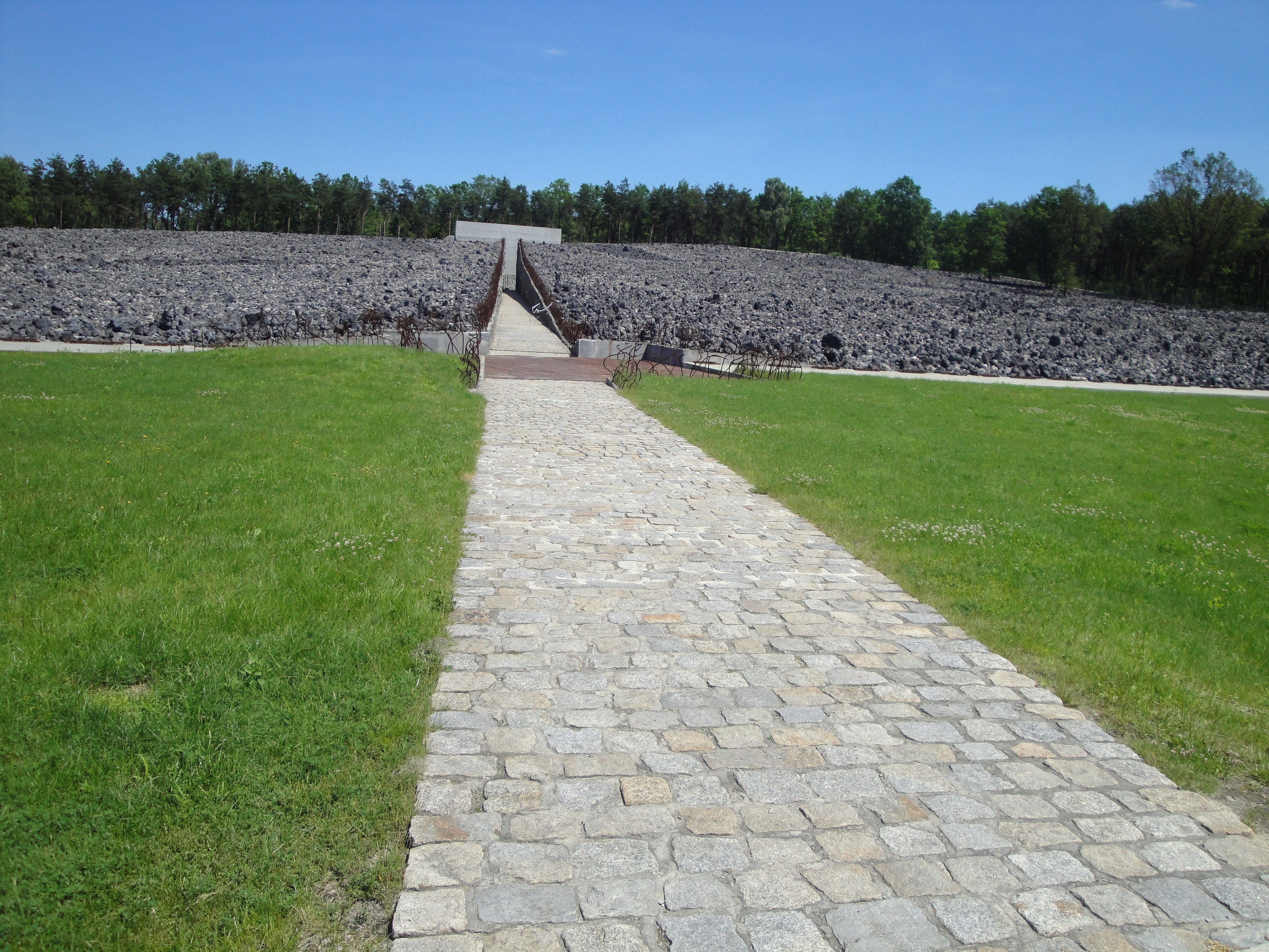 Belzec Memorial